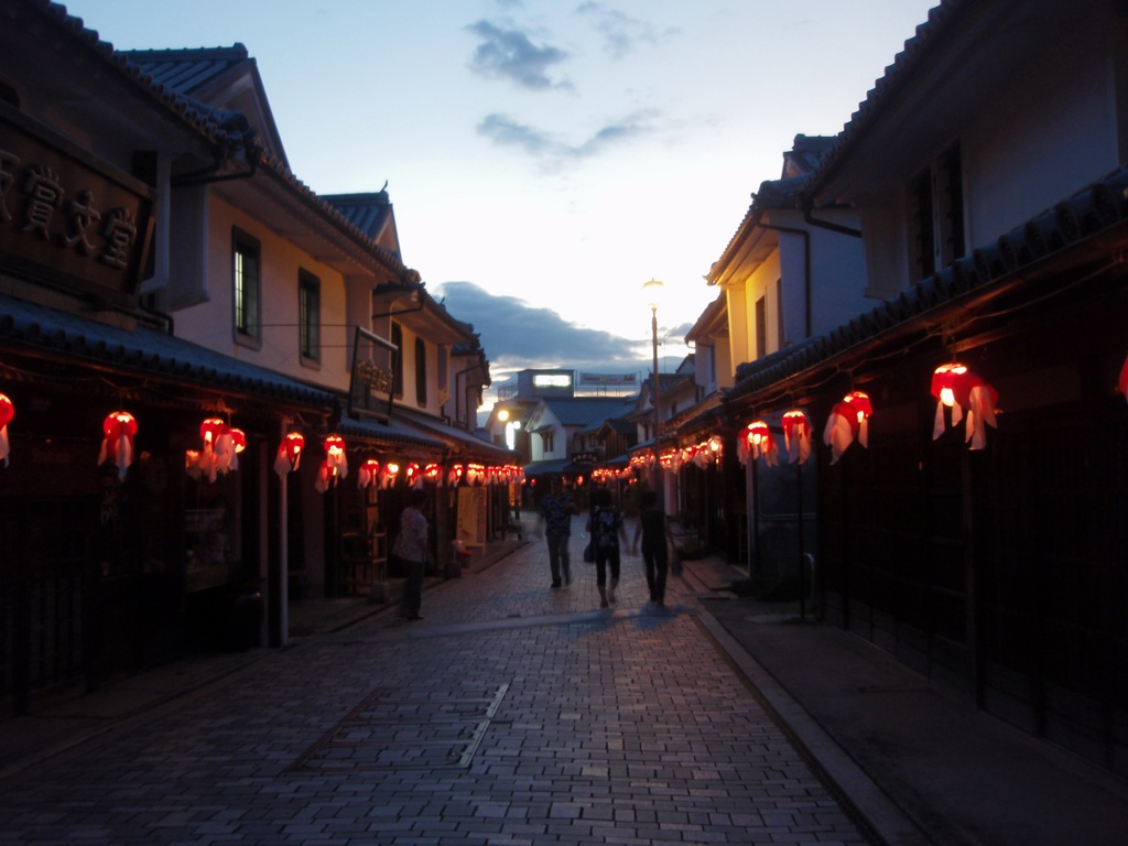 Suhobei took this picture in Yanai in August 2008.